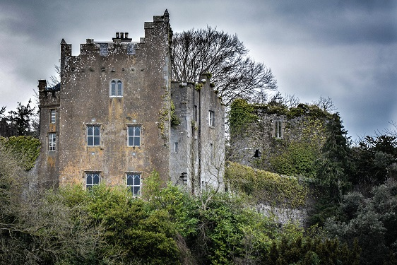 Ardfinnan Castle in early spring in the rural Irish village of Ardfinnan in Co.Tipperary, Ireland. Pictured by David Mulcahy.